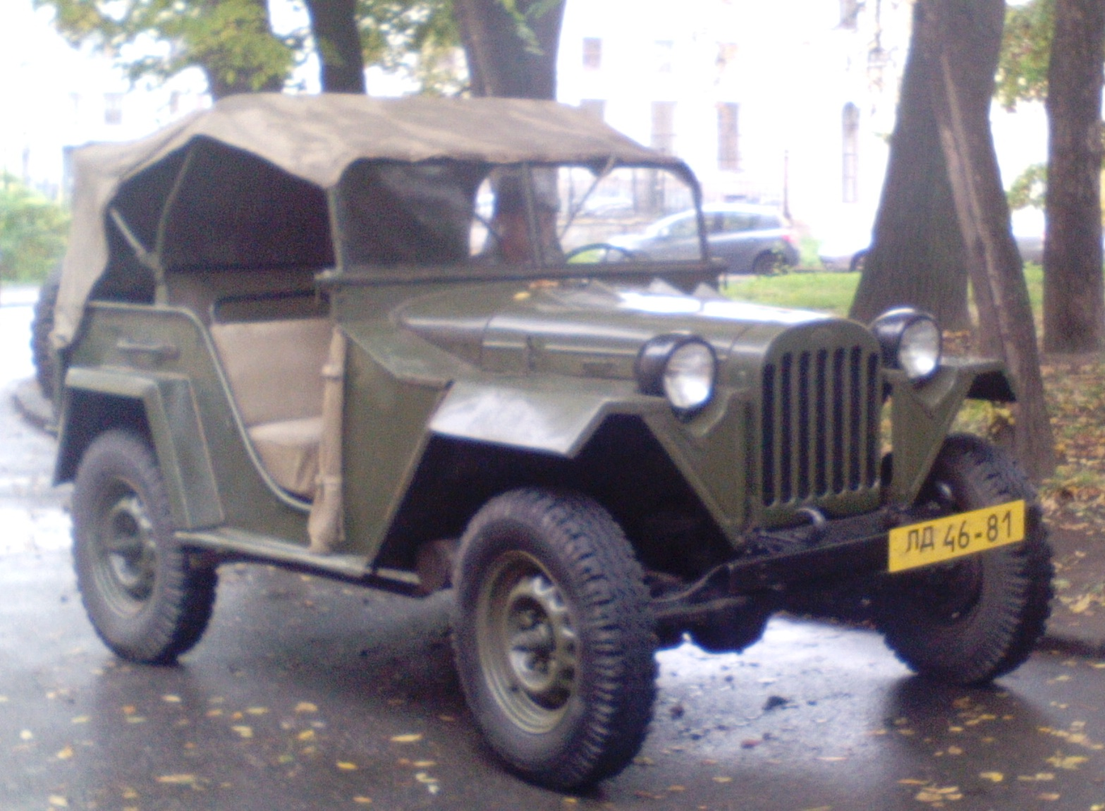 A Retro car with old license plate (1950's)